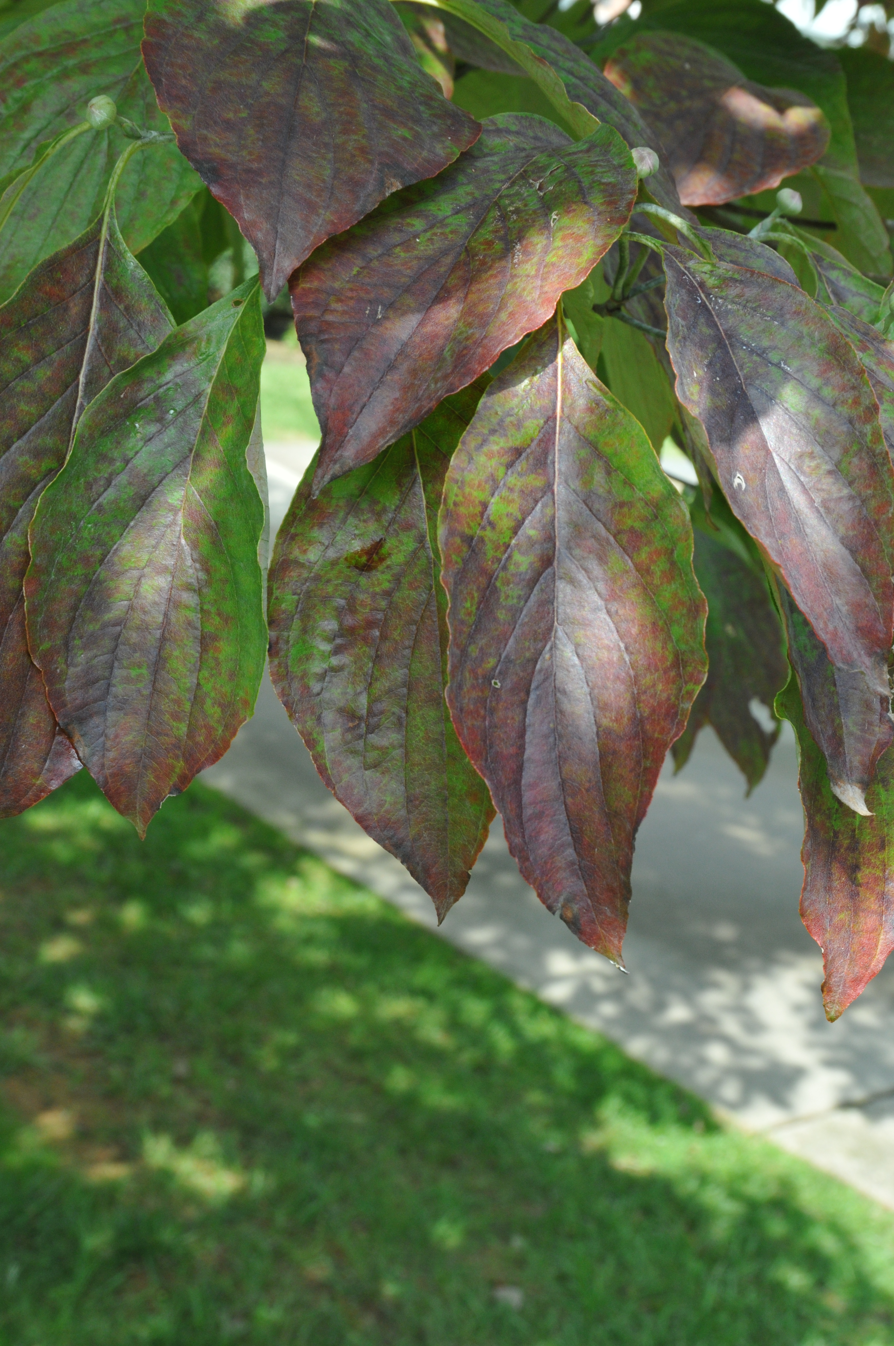 Leaves of the Cornus florida (flowering dogwood) in the fall.